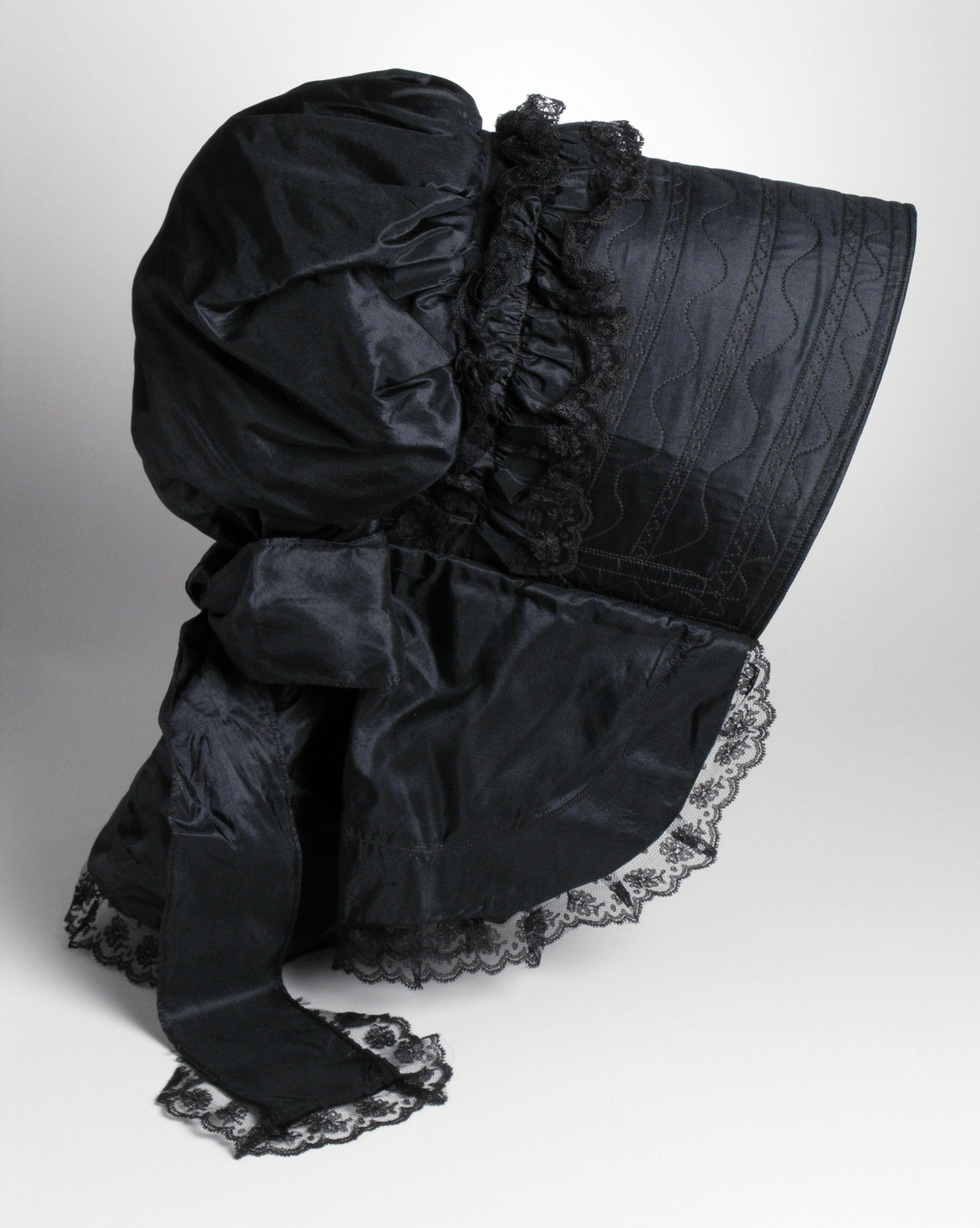 Probably United States, circa 1870 Costumes; Accessories Silk taffeta, lace 17 1/2 x 12 in. (43.18 x 30.48 cm) Gift of Mrs. Albert J. Hodges (34.31) Costume and Textiles